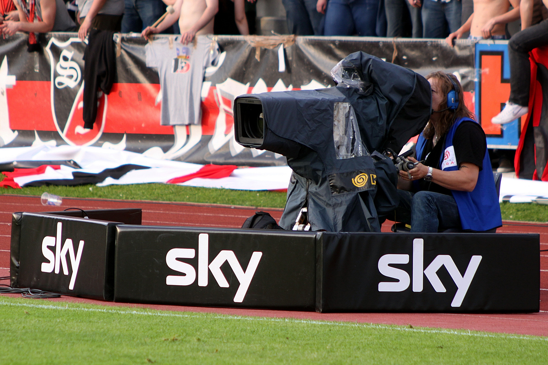 TV-camera from Sky in a football-stadion